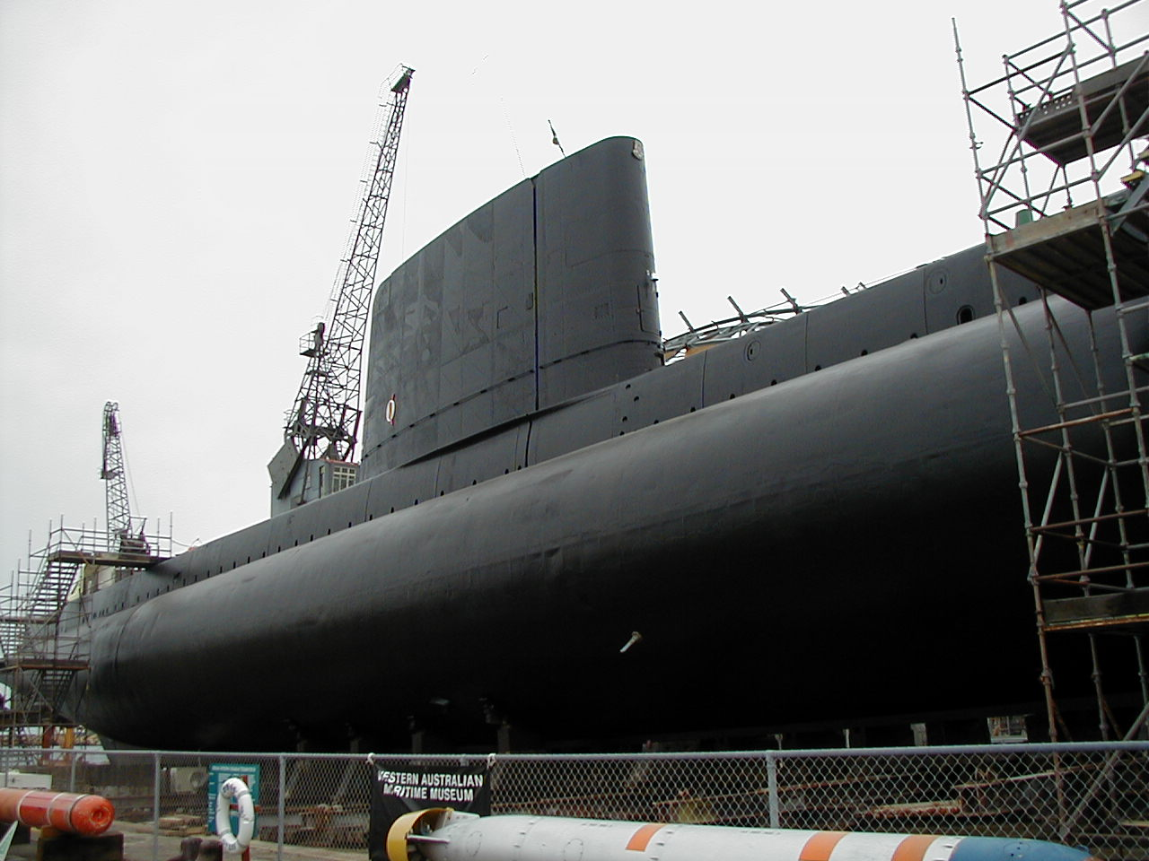 HMAS Ovens at Fremantle, Western Australia.